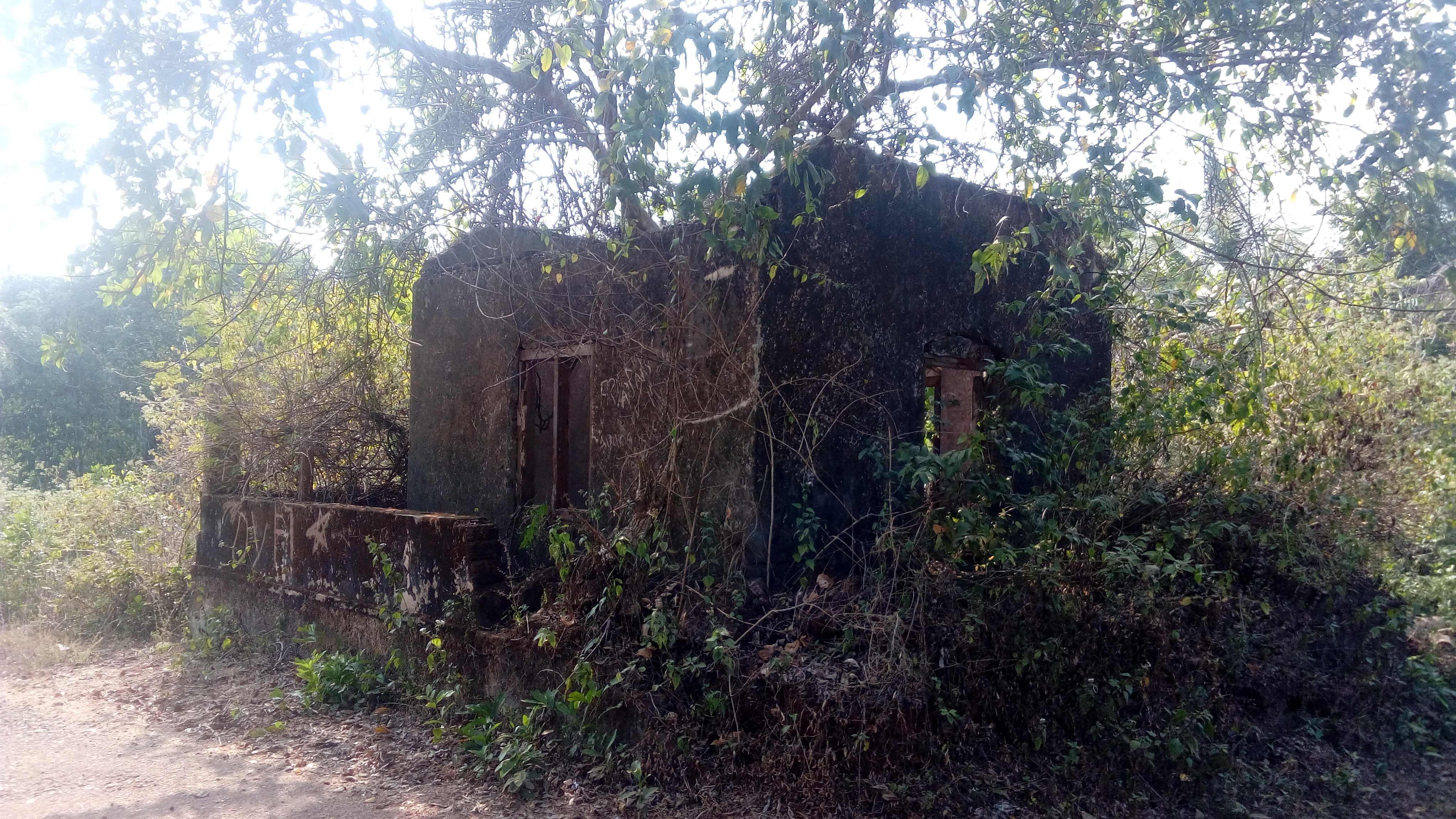 One of the base station of the famous british banglavu situated near to the city Eriya, Kasargod